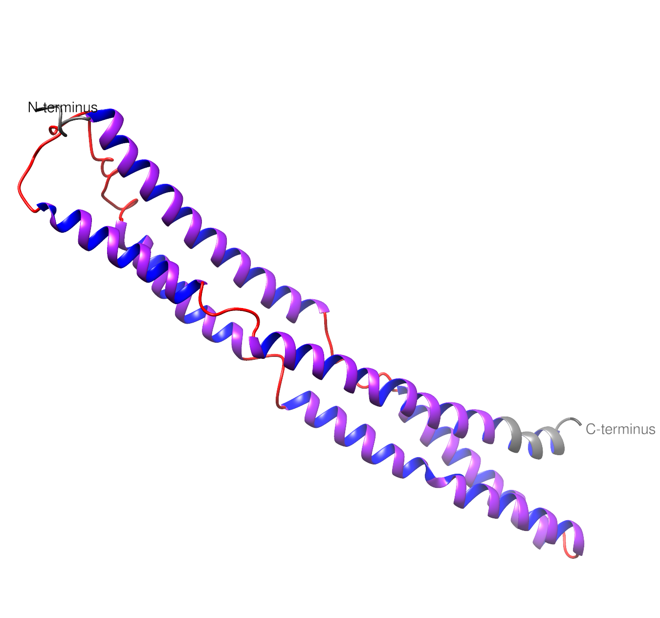 c12orf60 I-TASSER Predicted 3D Structure